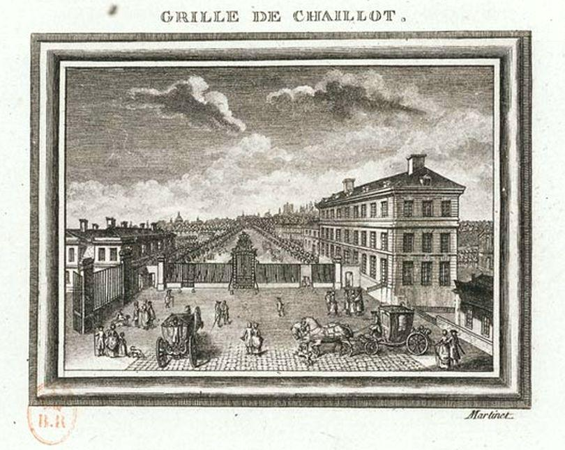 Image of engraving of the street and home (located at left) of Thomas Jefferson in Paris